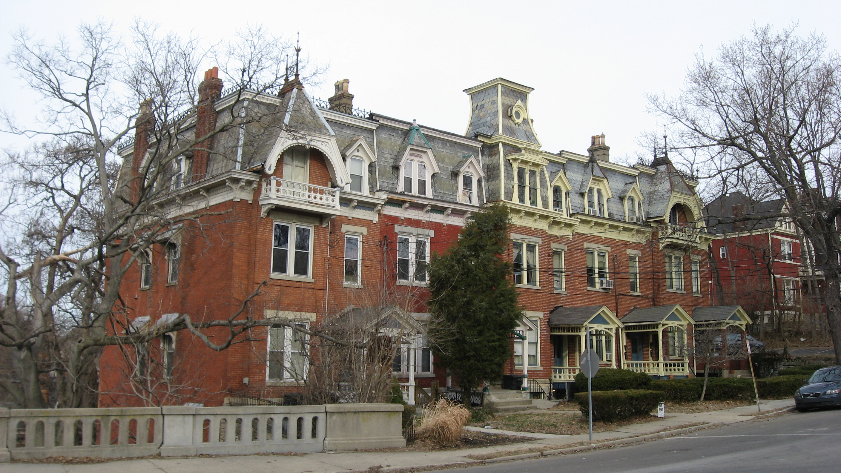 Front of Mills' Row, located at 2201-2209 Park Avenue in the Walnut Hills neighborhood of Cincinnati, Ohio, United States. Built in 1880, it is listed on the National Register of Historic Places.